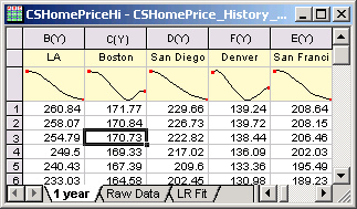 This graph shows the data from Case-Shiller Home Price Index from July 2007 to July 2008.